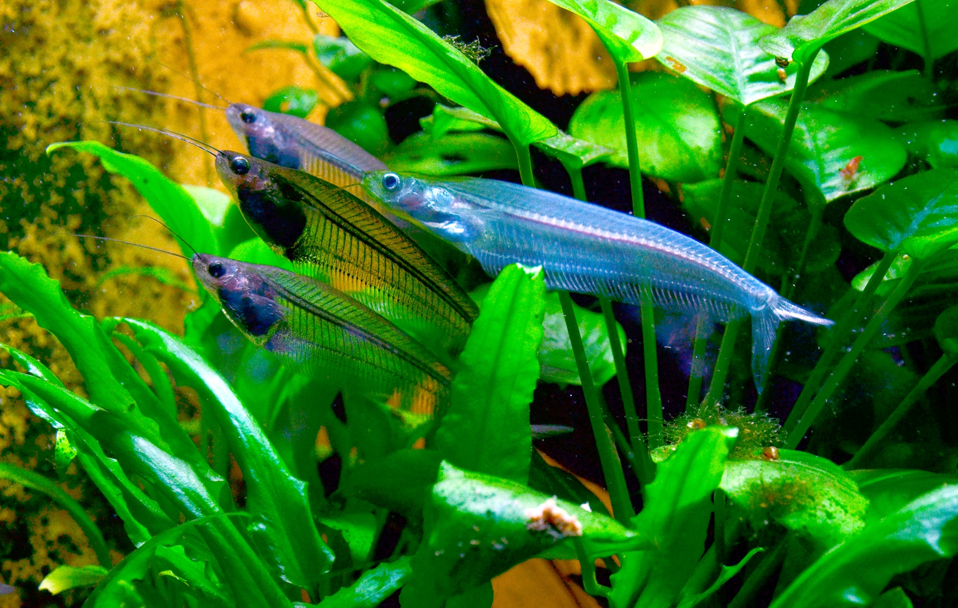 Glass catfish (Kryptopterus vitreolus) in Cologne Zoo, Germany.